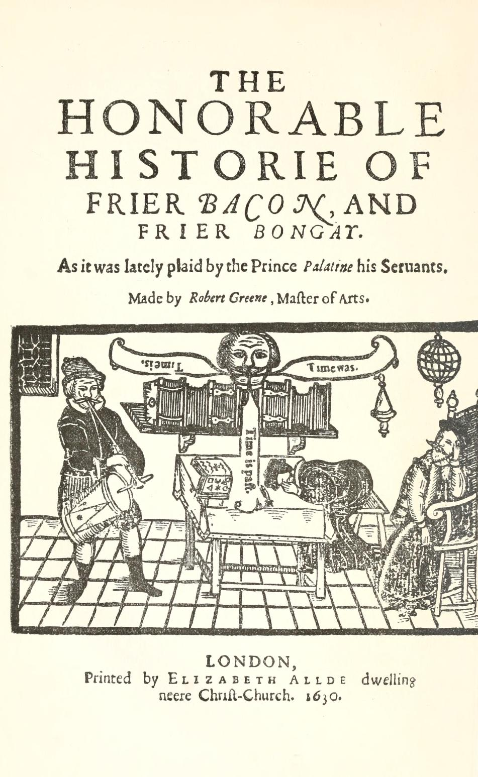 Title page of reprint of 1630 edition of Robert Greene's Friar Bacon and Friar Bungay